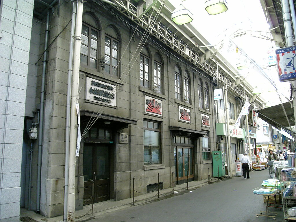 Whole town museum at Hirano, Osaka, Japan